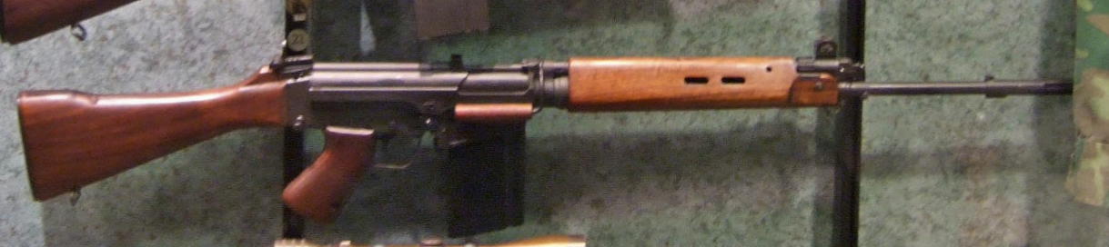 L1A1 in the National Firearms Museum